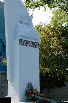 The renovated Garibaldi monument in Taganrog, unveiled on Sept. 12, 2007